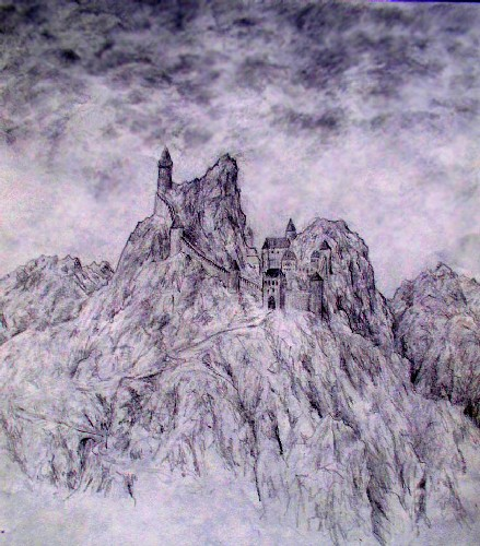 Durthang, castle of Mordor